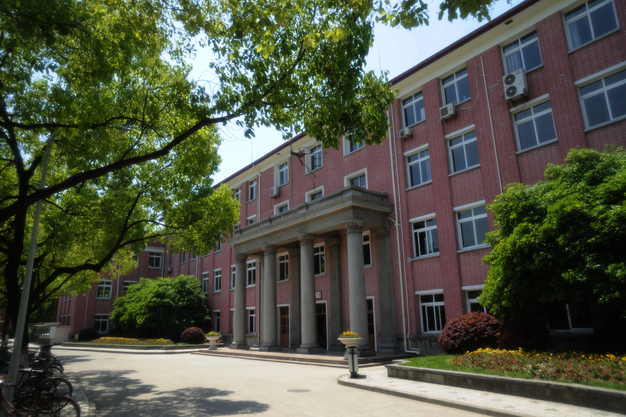 the 1st building in shanghai university